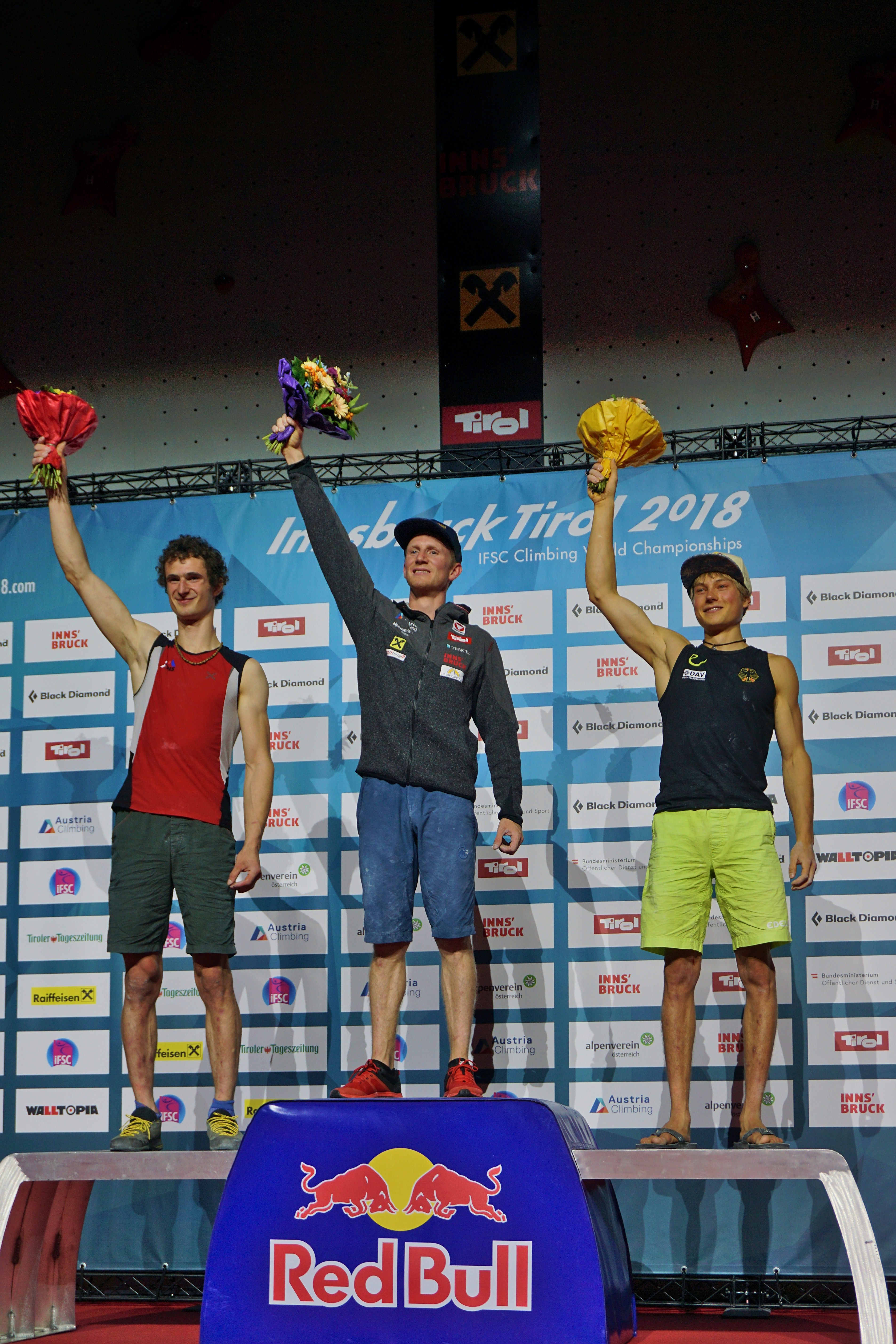 IFSC Climbing World Championships Innsbruck 2018 Final MAN lead – winners 2nd Adam Ondra (left), 1st Jakob Schubert (middle), 3rd Alexander Megos (right)